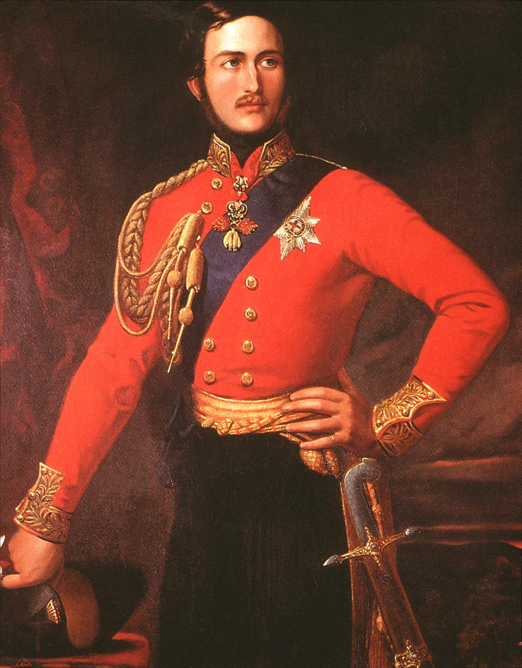 Prince Albert